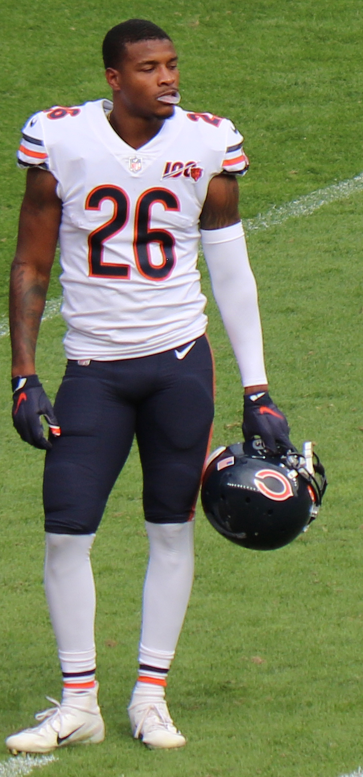 Deon Bush, a National Football League player.